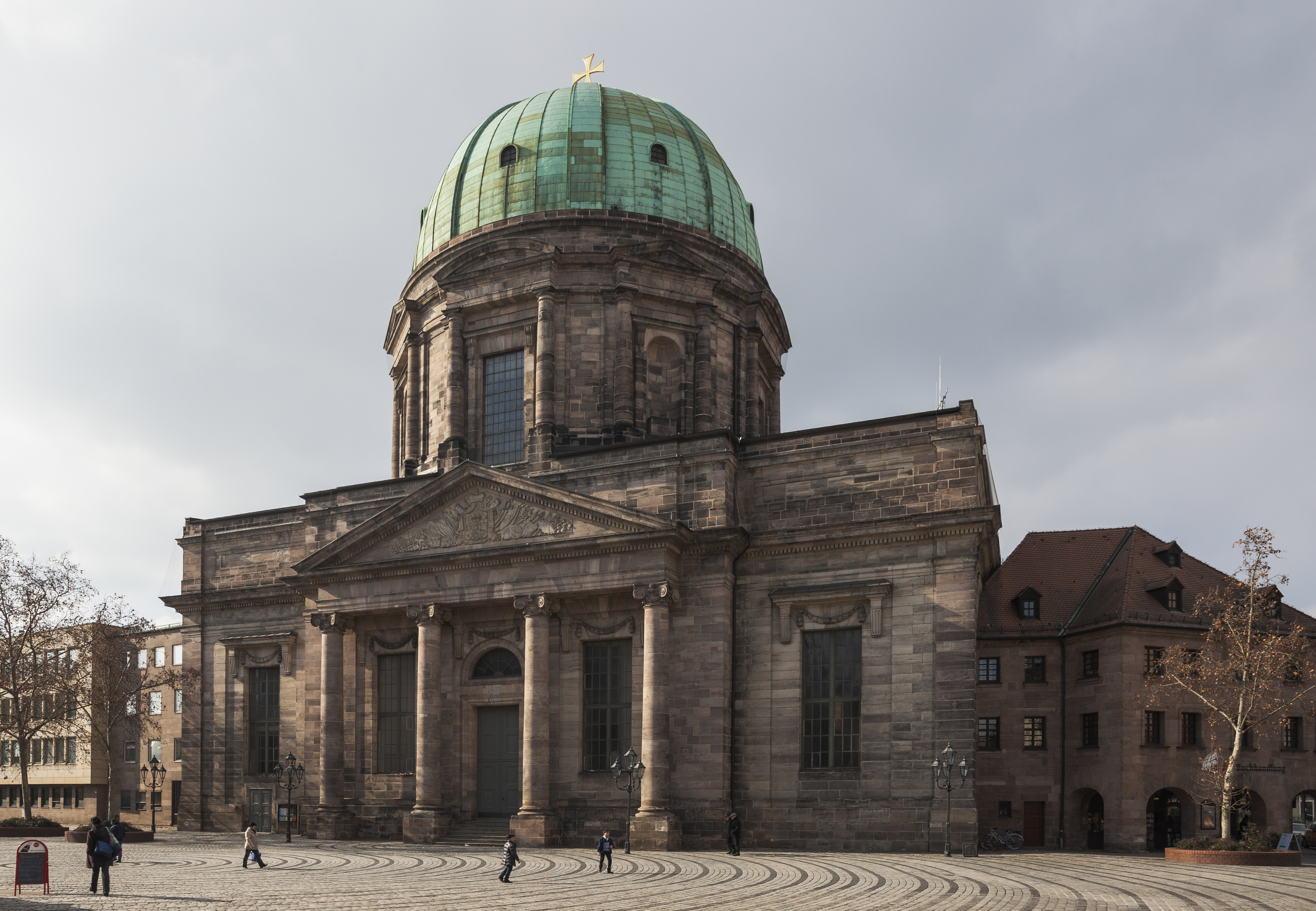 Church of St. Elisabeth, Nuremberg, Germany